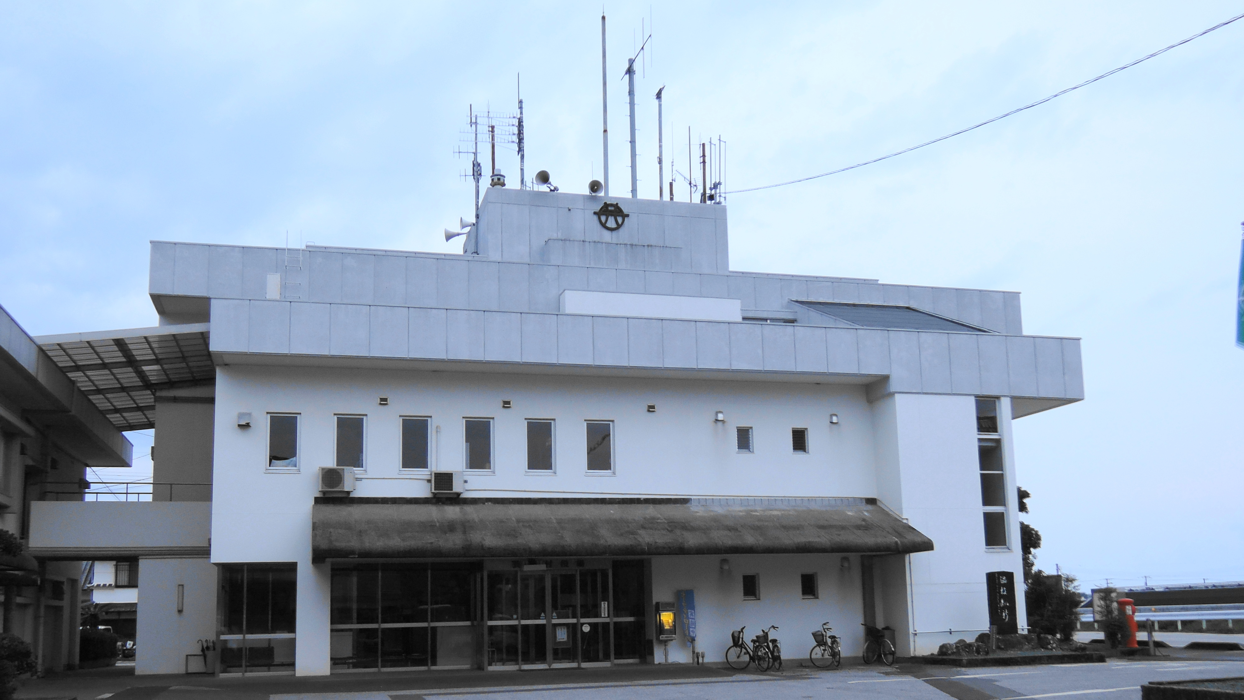 Geisei village hall,Kochi prefecture,Japan